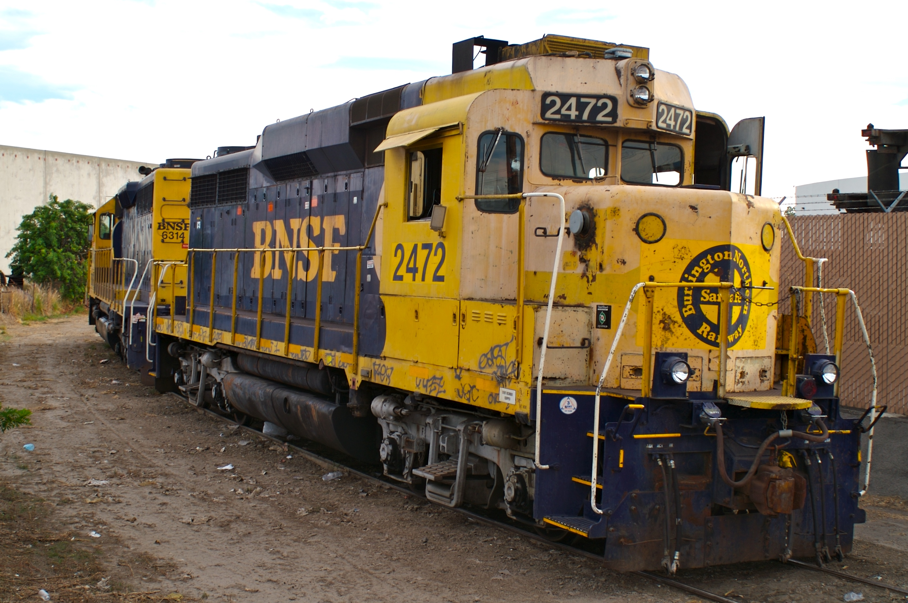 EMD GP30u (ATSF rebuild of GP30 with 645 engine) BNSF 2472, at Commerce, California, USA.